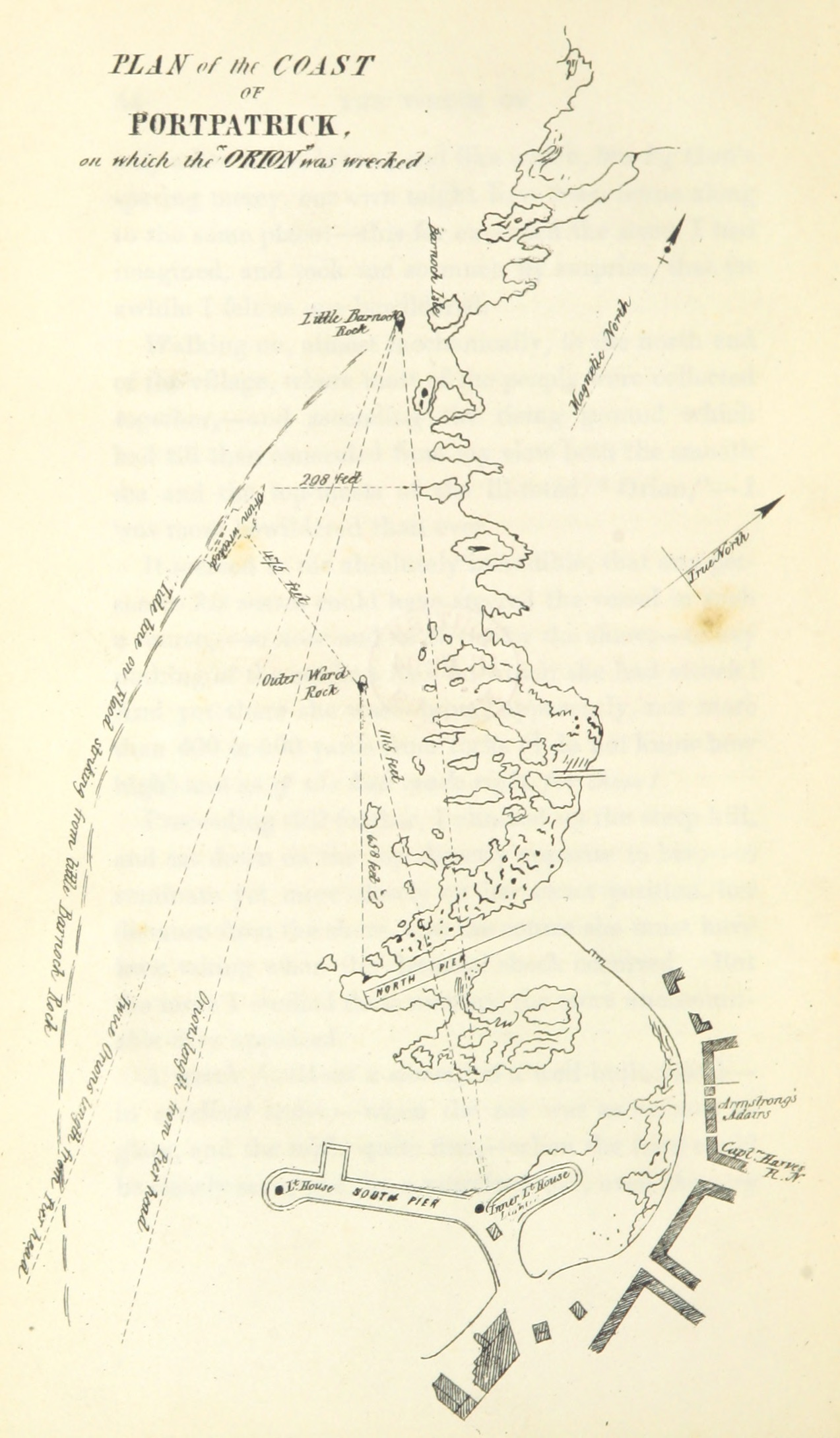 View this map on the BL Georeferencer service. Image taken from: Title: "[The Wreck of the Orion: a tribute of gratitude ... Second edition.]" Author: CLARKE, Joseph - Incumbent of Stretford Shelfmark: "British Library HMNTS 10498.b.20." Page: 50 Place of Publishing: London Date of Publishing: 1851 Publisher: Longman & Co. Edition: Third edition. Issuance: monographic Identifier: 000715368 Explore: Find this item in the British Library catalogue, 'Explore'. Open the page in the British Library's itemViewer (page image 50) Download the PDF for this book Image found on book scan 50 (NB not a pagenumber)Download the OCR-derived text for this volume: (plain text) or (json) Click here to see all the illustrations in this book and click here to browse other illustrations published in books in the same year. Order a higher quality version from here.